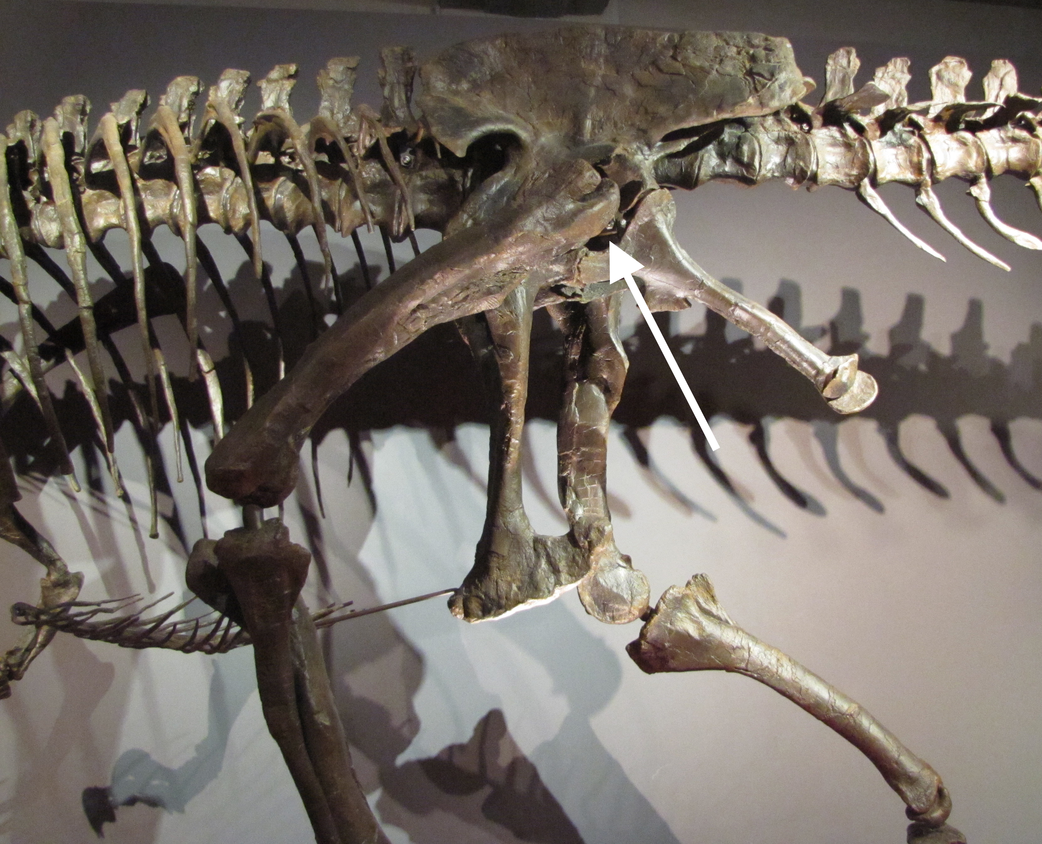 Allosaurus sp. showing the opened acetabulum (Aathal Museum, Switzerland).